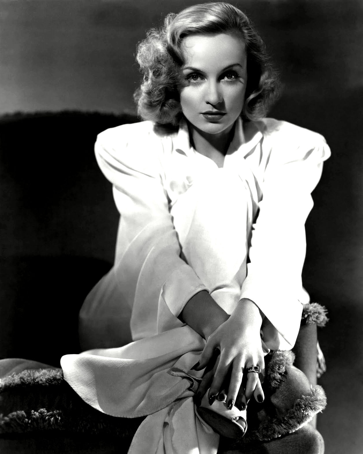 Publicity photo of Carole Lombard (1930s).